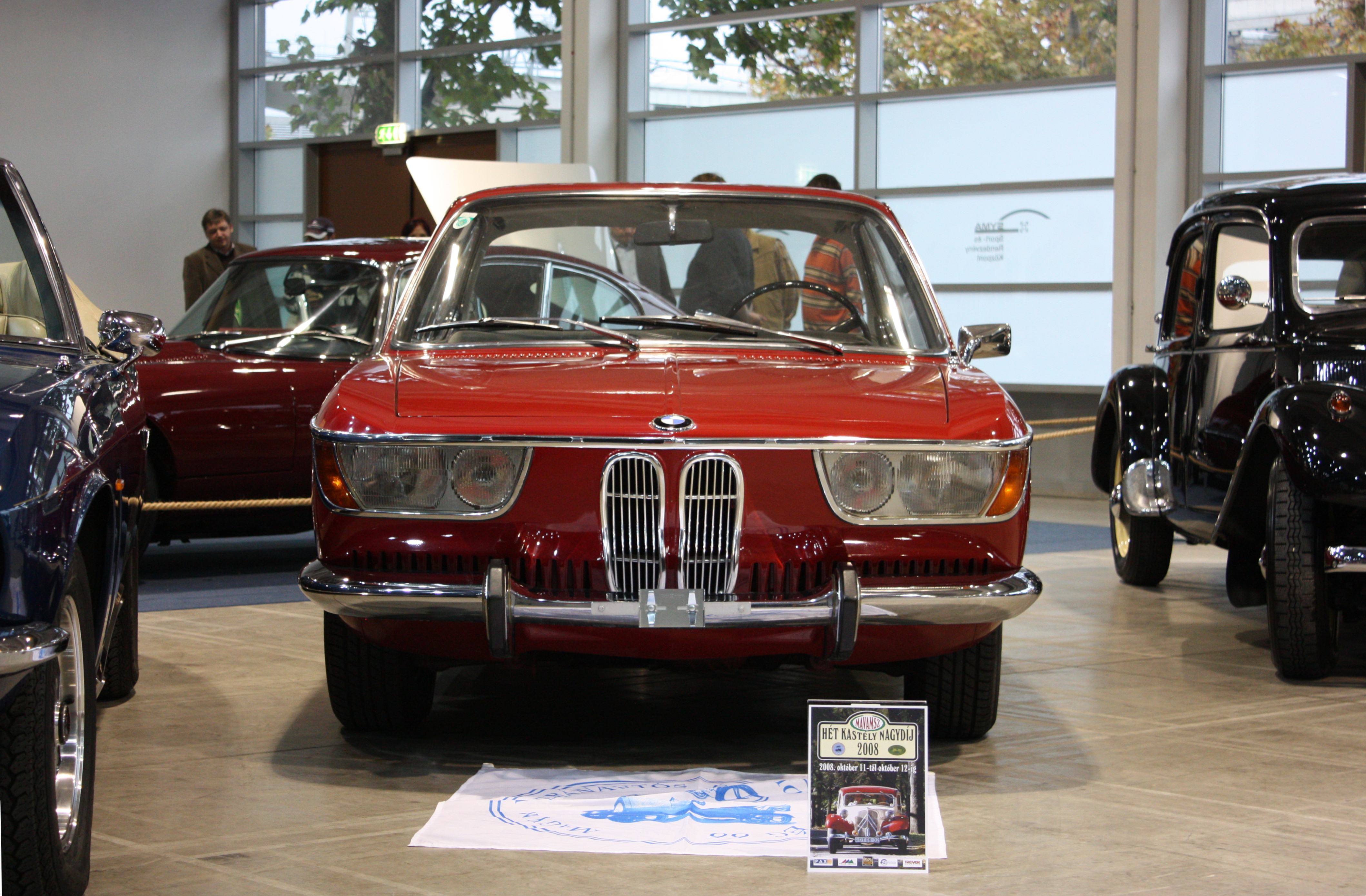 Oldtimer Show 2008.